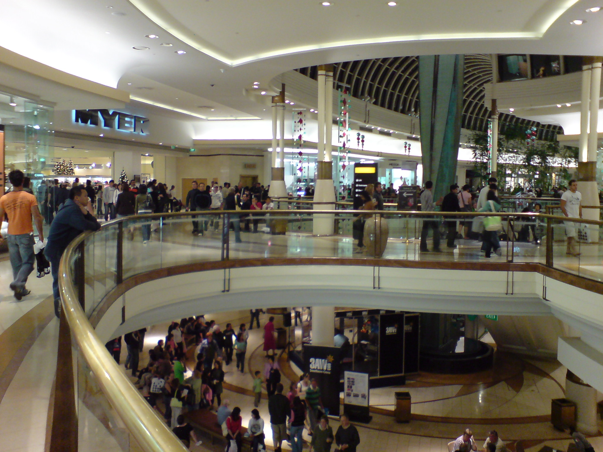 Chadstone Shopping Centre during busy all-night shopping for Christmas 2006.